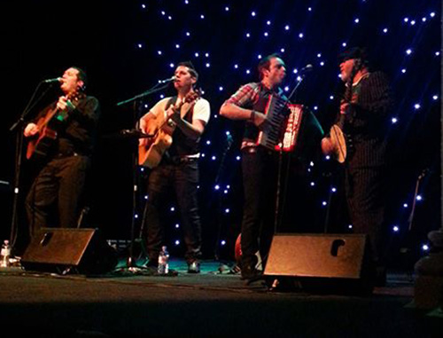 The High Kings perform on stage at the Theatre Royal, Waterford, Co Waterford, Ireland, December 2nd 2012. l-r Finbarr Clancy, Brian Dunphy, Darren Holden, Martin Furey